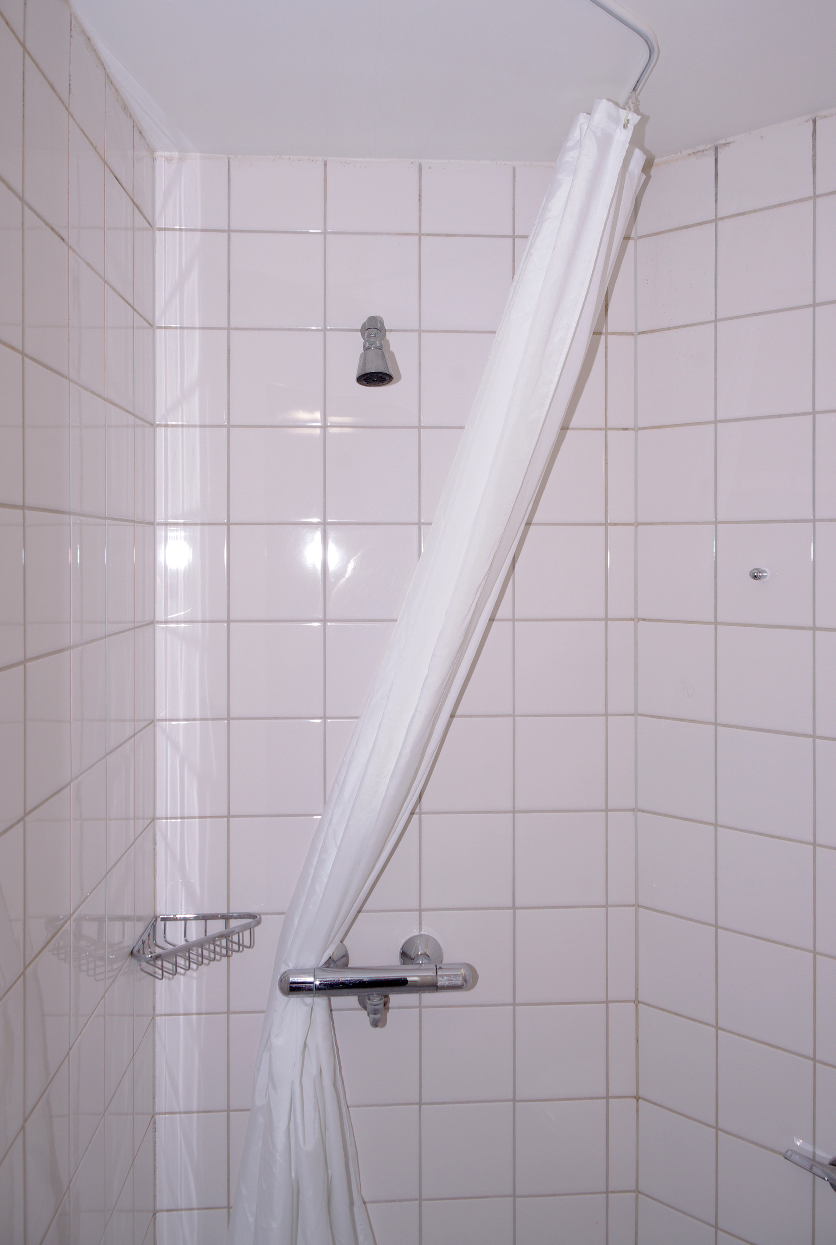 Interior of Melton Hall room B60 on Jubilee Campus, University of Nottingham. This is a standard en-suite single study bedroom, on the lakeside (south side) of the hall. Rooms on the north side are larger, but only get a view of a car park. A standard bedroom comes equipped with: 1 desk, with 8 drawers 1 desk chair 1 sideboard with 3 drawers Pinboard Shelf Bed with mattress Cupboard. The bathroom has a shower, basin, toilet, some holders and a few towel pegs.